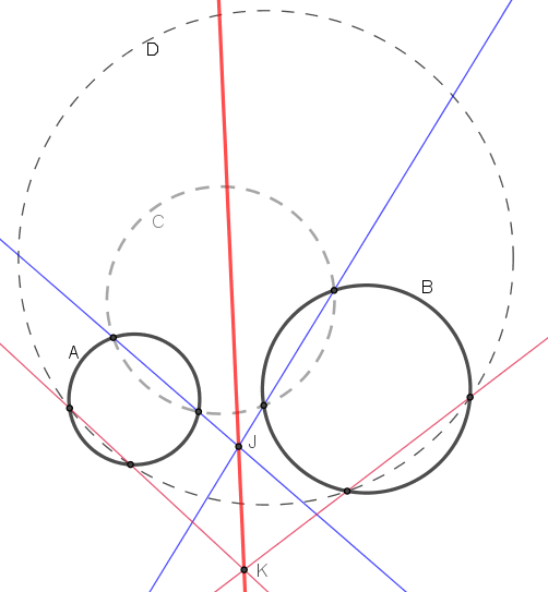 Geometrical construction of radical axis of two circles